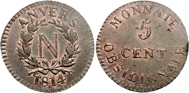 France, Premier Empire. Antwerpen. Napoleon I. Emperor, 1804-1814. :CU 5 Centimes (14.42 g, 6h). Dated 1814. :::Large N within laurel wreath :::5 / CENT in two lines. :Gadoury 129; Mailliet 3.2; KM 2.2. :EF, some light adjustment marks, underlying mint red. :"In early 1814, the War of the Sixth Coalition against Napoleon was coming to an end. The coalition, composed of Austria, Russia, Prussia, the United Kingdom, Sweden, and several German states, had pushed Napoleon from their territories. Afterward, they entered France, eventually taking Paris and forcing Napoleon to surrender. This coin was struck by General Lazare Carnot, who was responsible for the city of Antwerp, an important naval base for Napoleon in the Low Countries. As the coalition entered Belgium in an attempt to liberate it from French rule, they besieged Antwerp. General Carnot, who produced this siege coinage from the cannon of Antwerp’s fortress, tenaciously held on, refusing to surrender despite French losses elsewhere. Only after Napoleon capitulated – and at the urging of the Count of Artois, later King Charles X – did Carnot surrender the city."